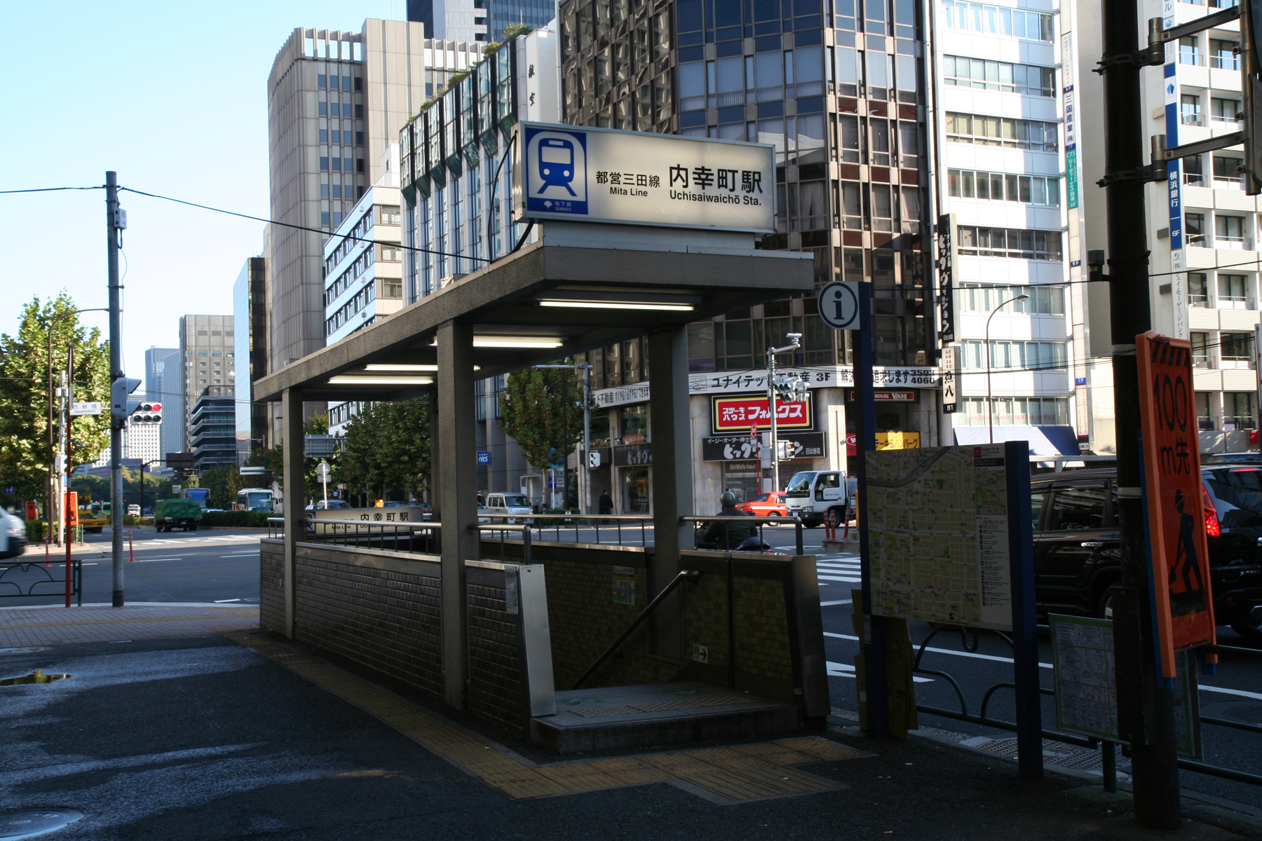 Toei Uchisaiwaicho Station exit A3 in Chiyoda, Tokyo.